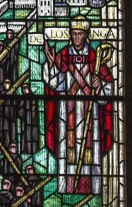 Designed by Maria Forsythe (1905-91) in 1964 and made by G. King and Son. Given in honour of Julian of Norwich in memory of Harriet Campbell (1874-53). Scenes show St Julian of Norwich and Herbert de Losinga with the mottoes "Ora et Labora" and "Ut in omnibus glorificatur" (God may be glorified in all things).